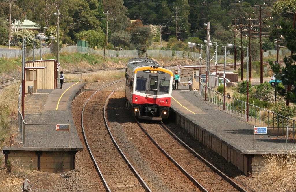 Sprinter (Victorian train) arriving into Wandong railway station, Victoria Seymour bound